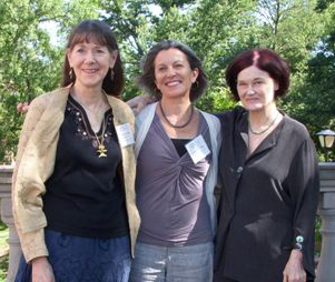 Carolyn Kreiter-Foronda, self, Claudia Emerson, Kelly Cherry, University of Mary Washington, Poets Laureate of Virginia, education, poetry, Summary Carolyn Kreiter-Foronda, self, Claudia Emerson, Kelly Cherry, University of Mary Washington, Poets Laureate of Virginia, education, poetry